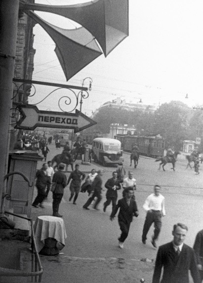 “Air Raid”. People of Leningrad running through the streets in the early days of the war.